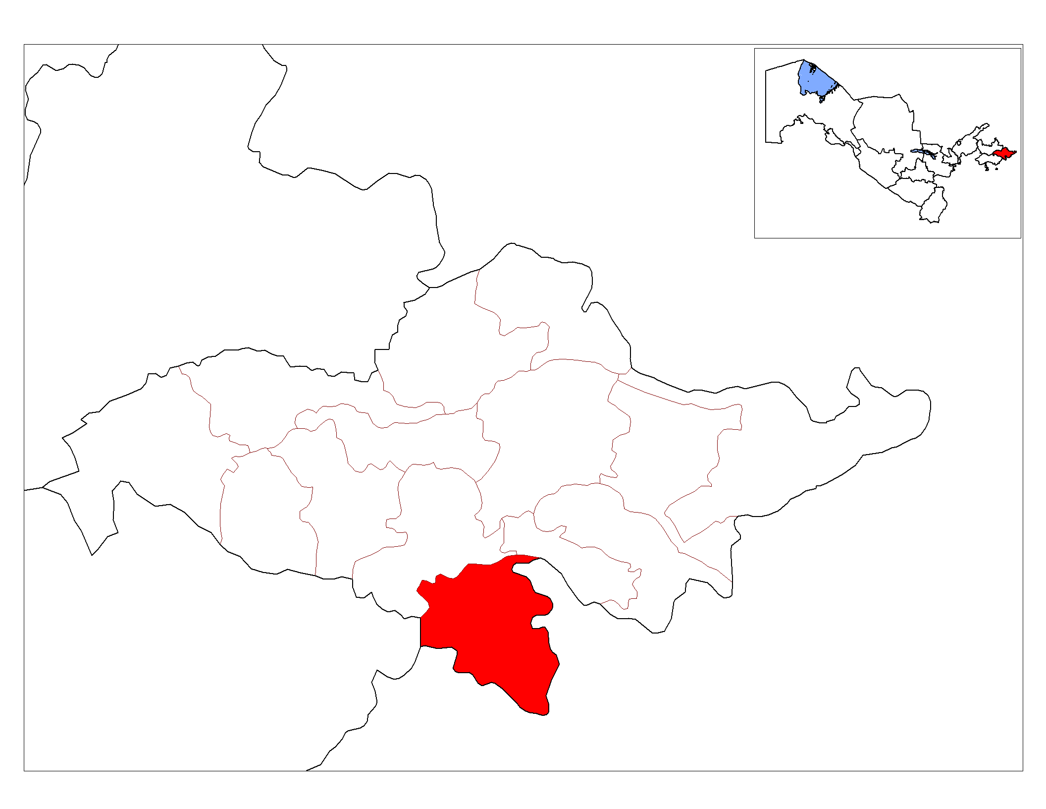 Location of Marhamat District in Andijon Province